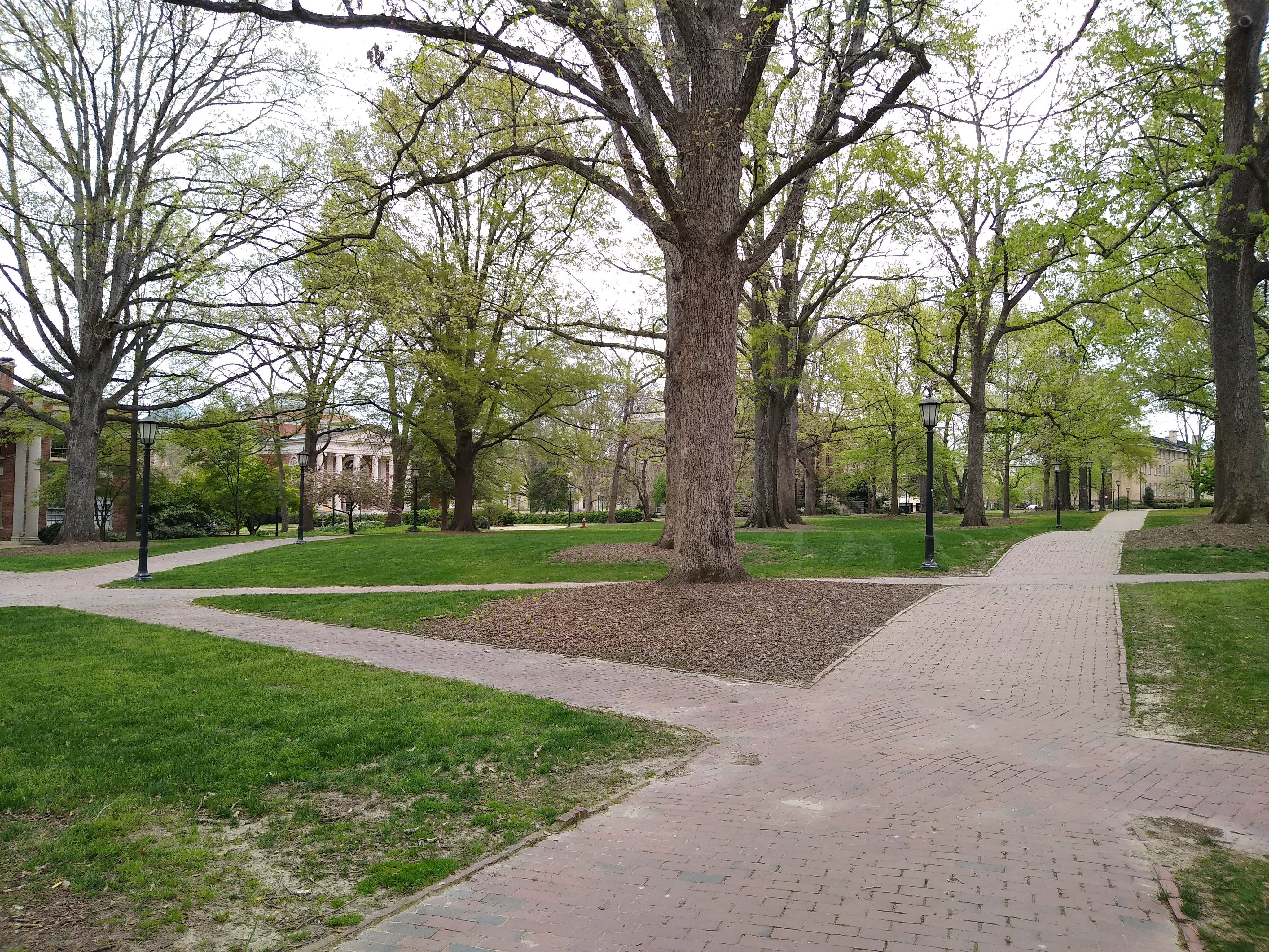 McCorkle Place at the University of North Carolina at Chapel Hill, late on a Monday morning at the end of March 2020. It is almost empty, due to the COVID-19 pandemic.